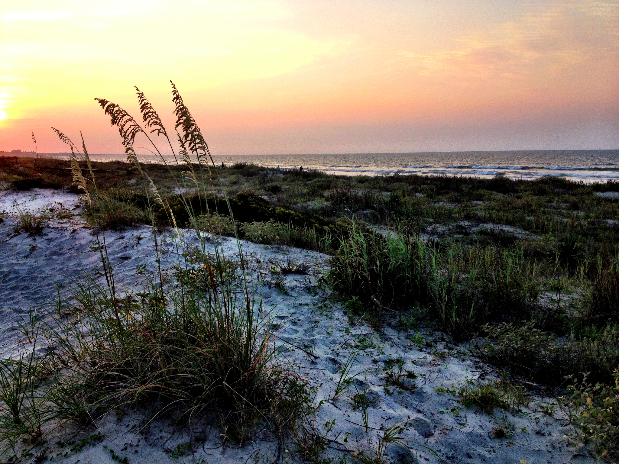 Sunrise at Kiawah Island "Kiawah Sunrise" by See1,Do1,Teach1